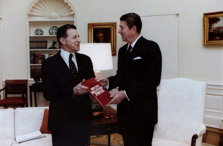 U.S. Secretary of Defense Caspar Weinberger presenting U.S. President Ronald Reagan with the debut edition of Soviet Military Power, a flagship Defense Intelligence Agency (DIA) publication.